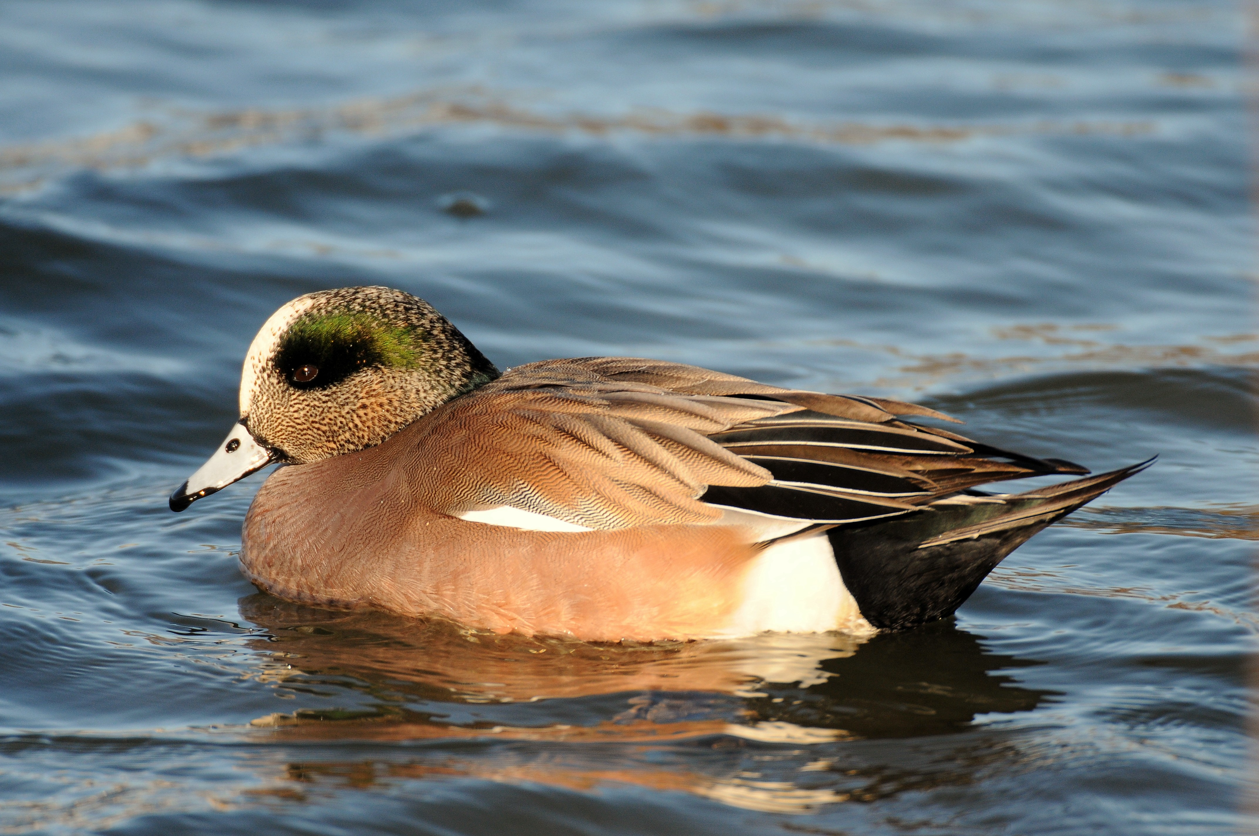 A male American Wigeon (also known as the American Widgeon or Baldpate) in winter plumage on Lake Takanassee, Long Branch, Monmouth County, New Jersey, USA. The duck was wintering on the lake in January 2010.